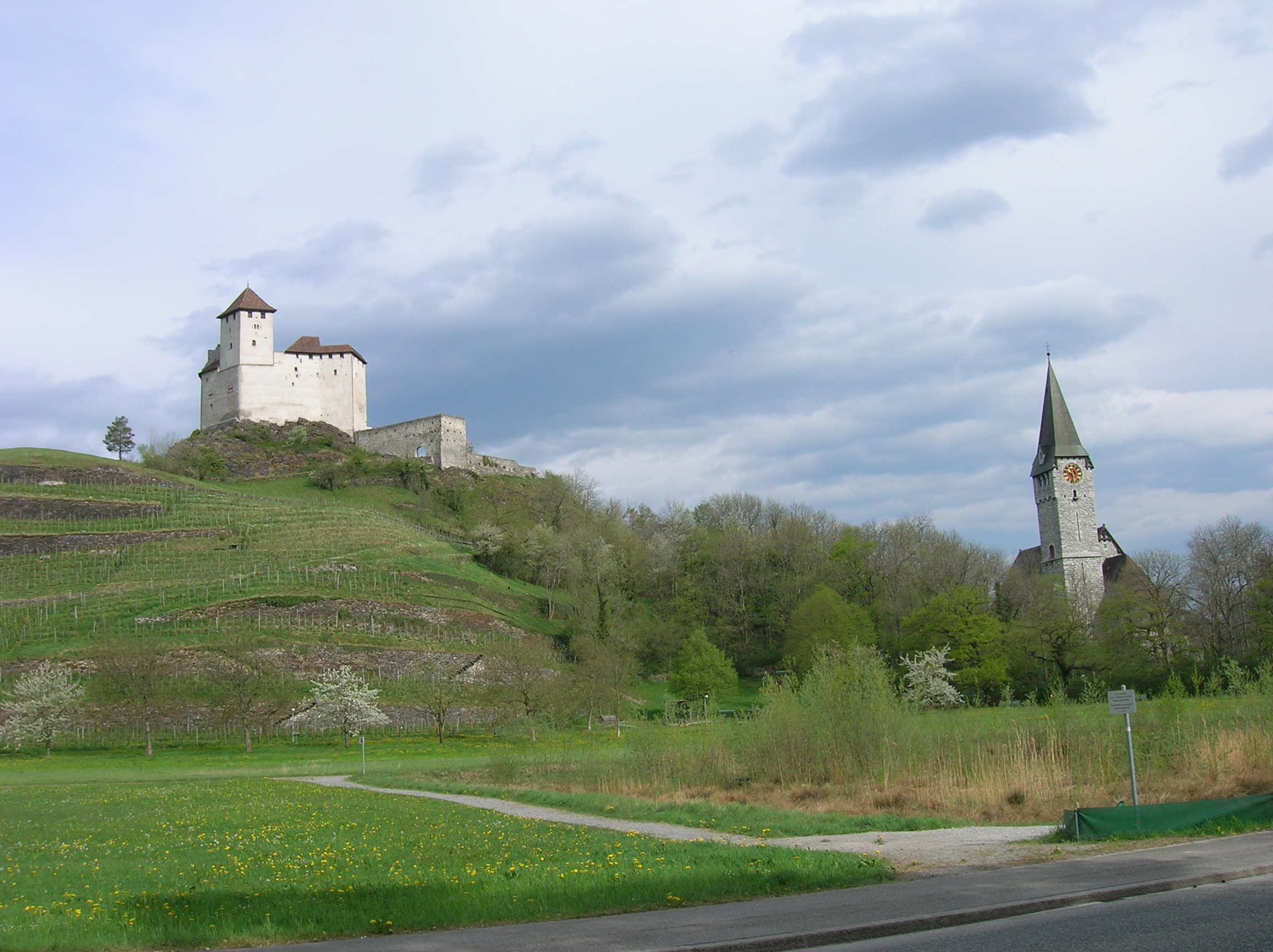 Castle Gutenberg and parish church of Balzers, Liechtenstein